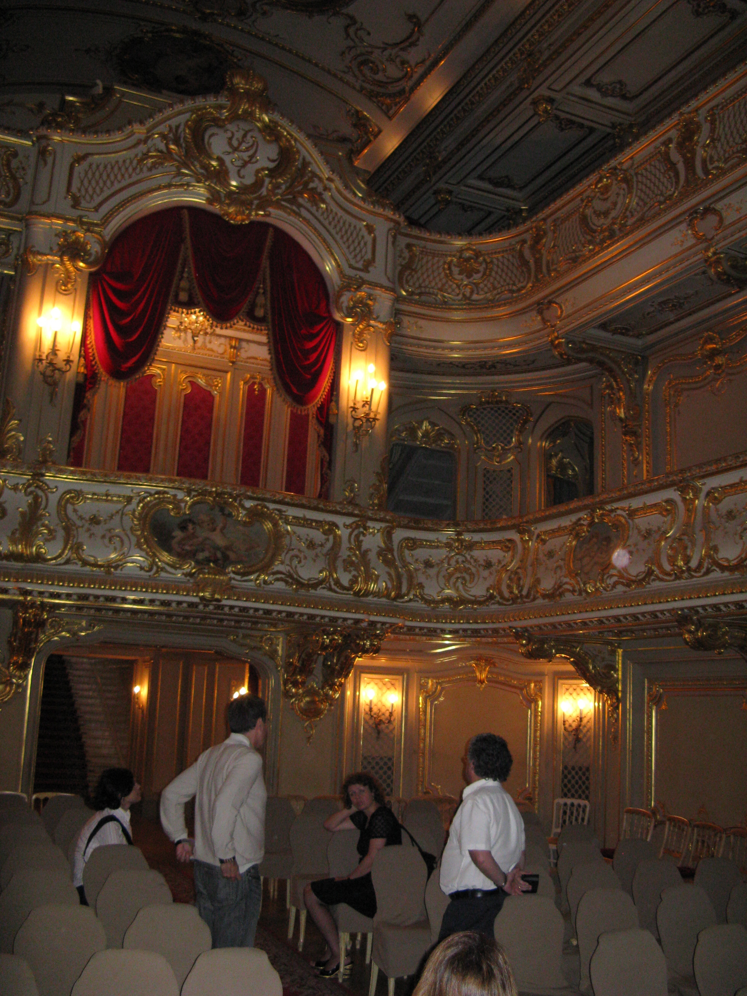 The Theater of Yusupov Palace in saint petersburg